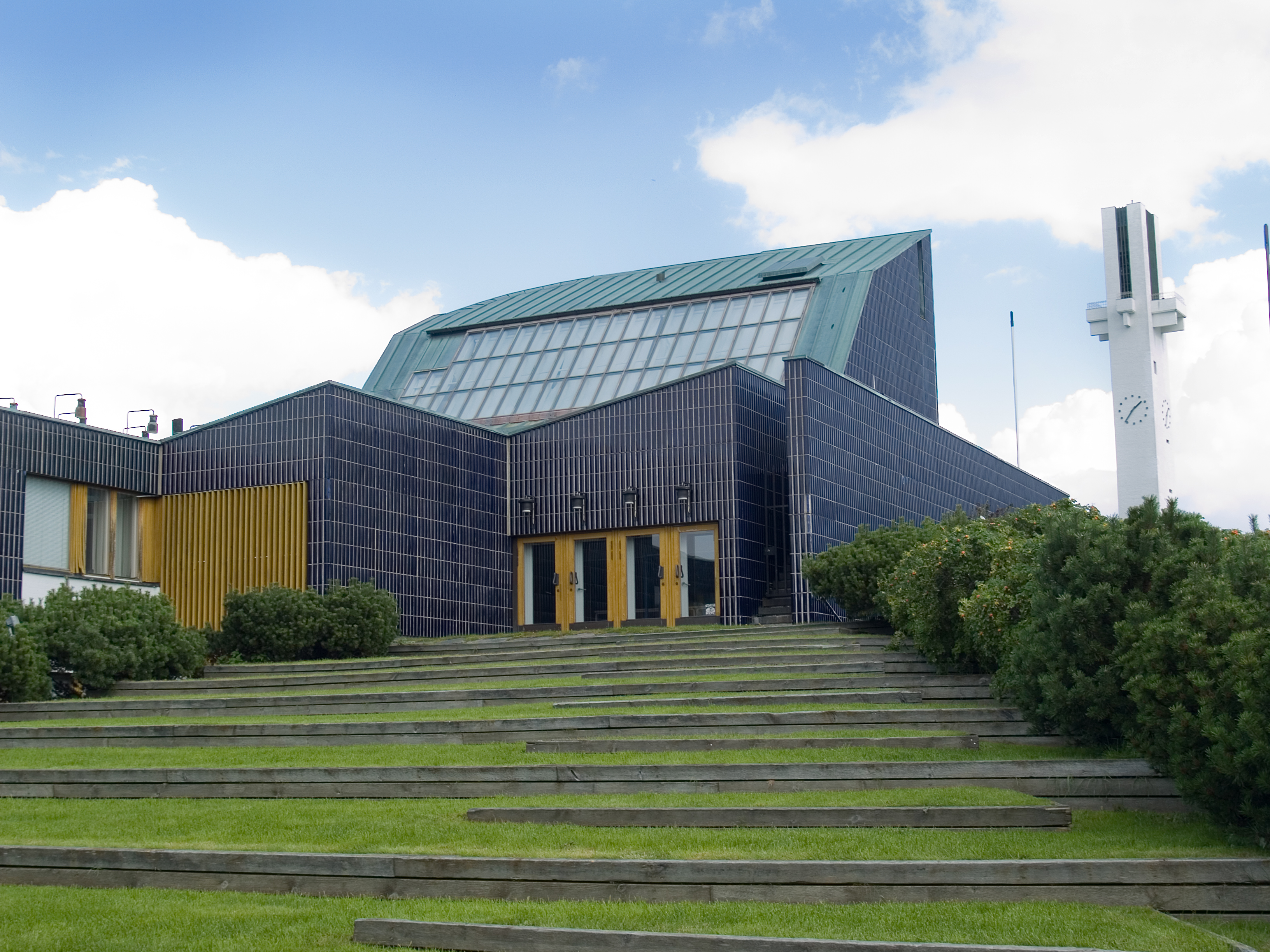 Grassy steps leading to the upper entrance of the Seinäjoki City Hall (by Alvar Aalto). The tower of church Lakeuden Risti in the background.